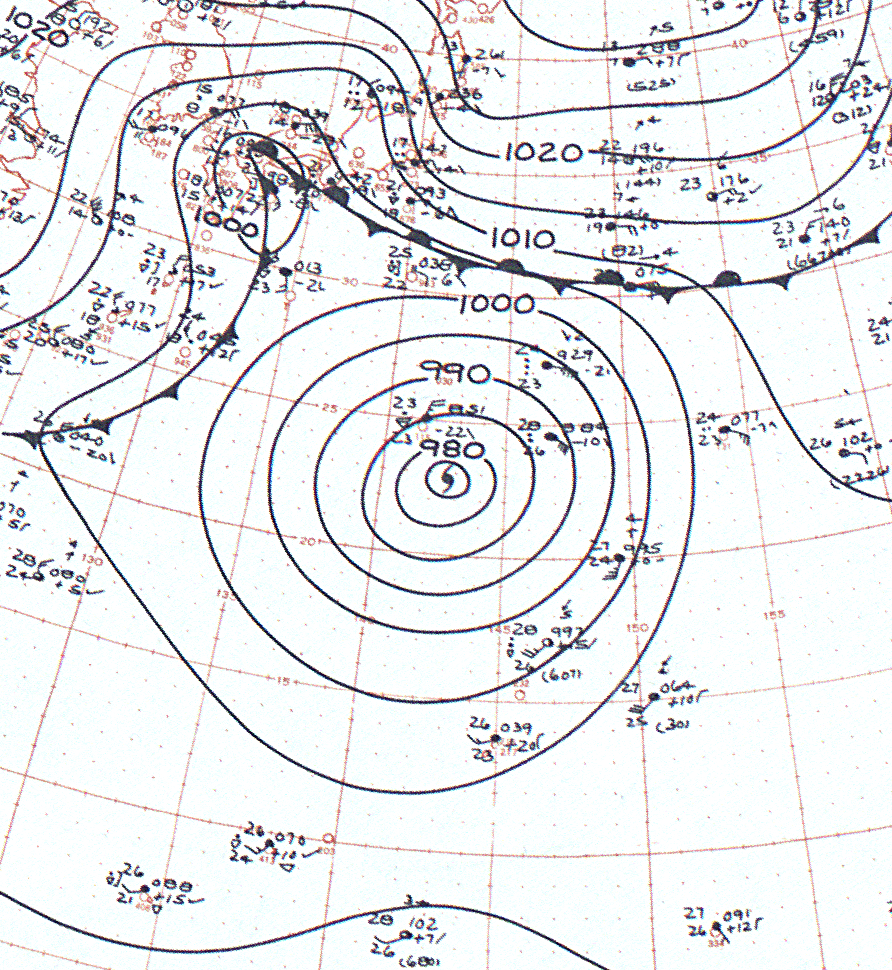 Surface weather analysis map of Typhoon Billie on October 26, 1961.